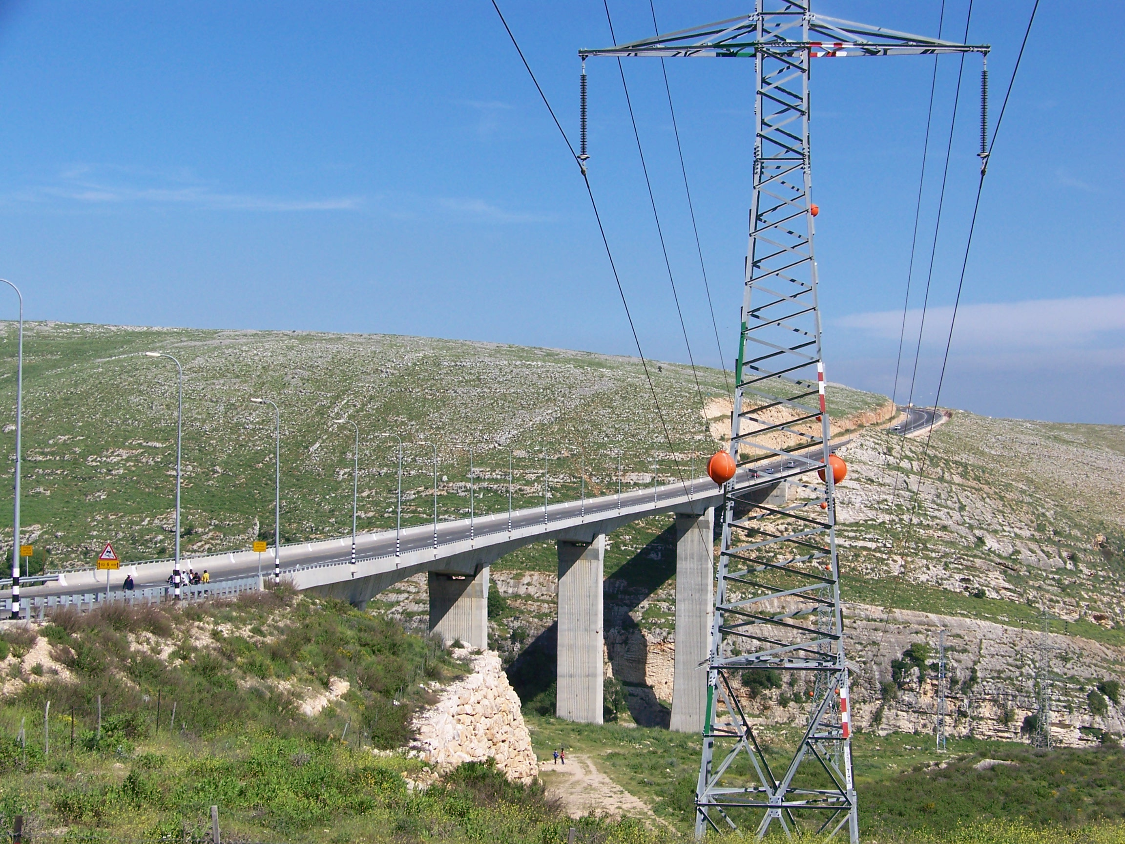 Transport in Israel